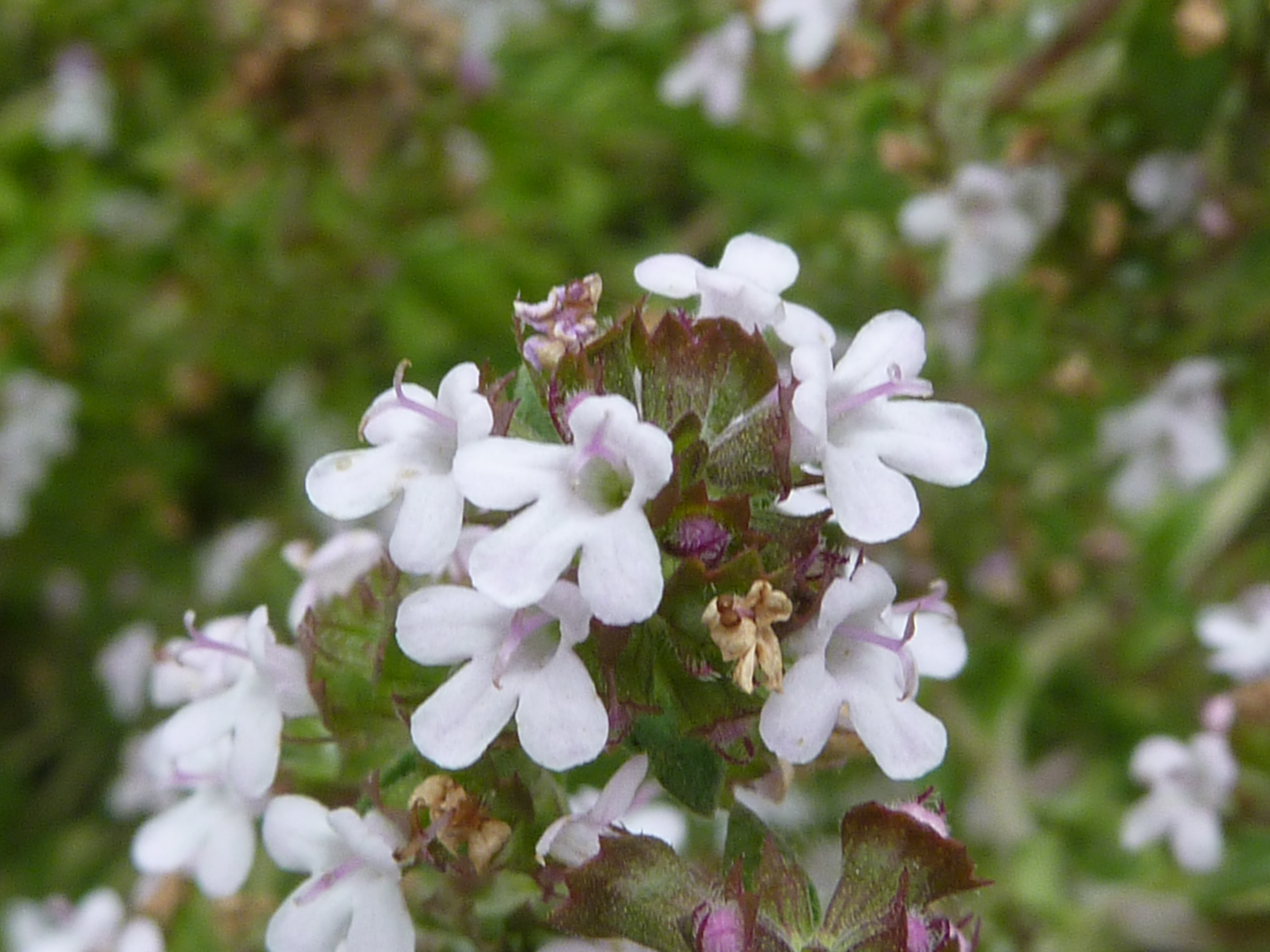 Taken in the Cambridge University Botanic Garden